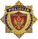 Badge of Montenegrin police